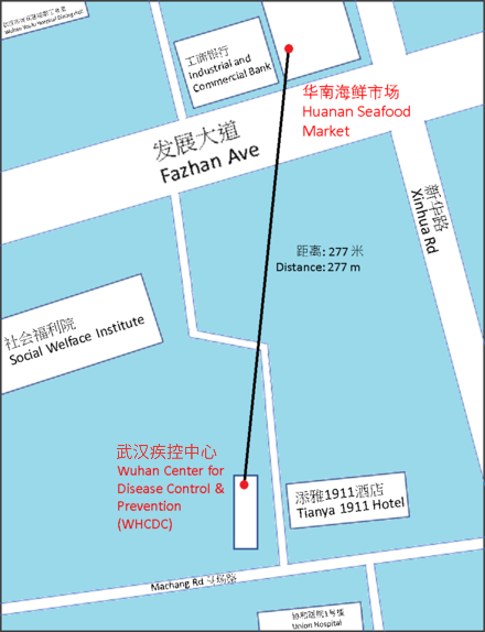 Map of WHCDC and Huanan Seafood Wholesale Market (with distance of 277 meters, i.e. 744 feet) as per Prof. Botao Xiao's[1][2][3] 2019 ResearchGate paper "The possible origins of 2019-nCoV coronavirus"